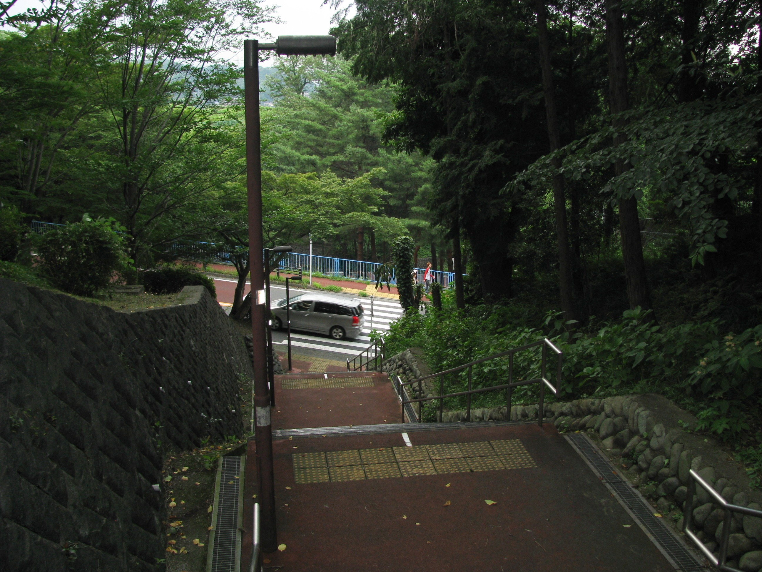 This location is Sakura-ga-oka in Tama, Tokyo, Japan.